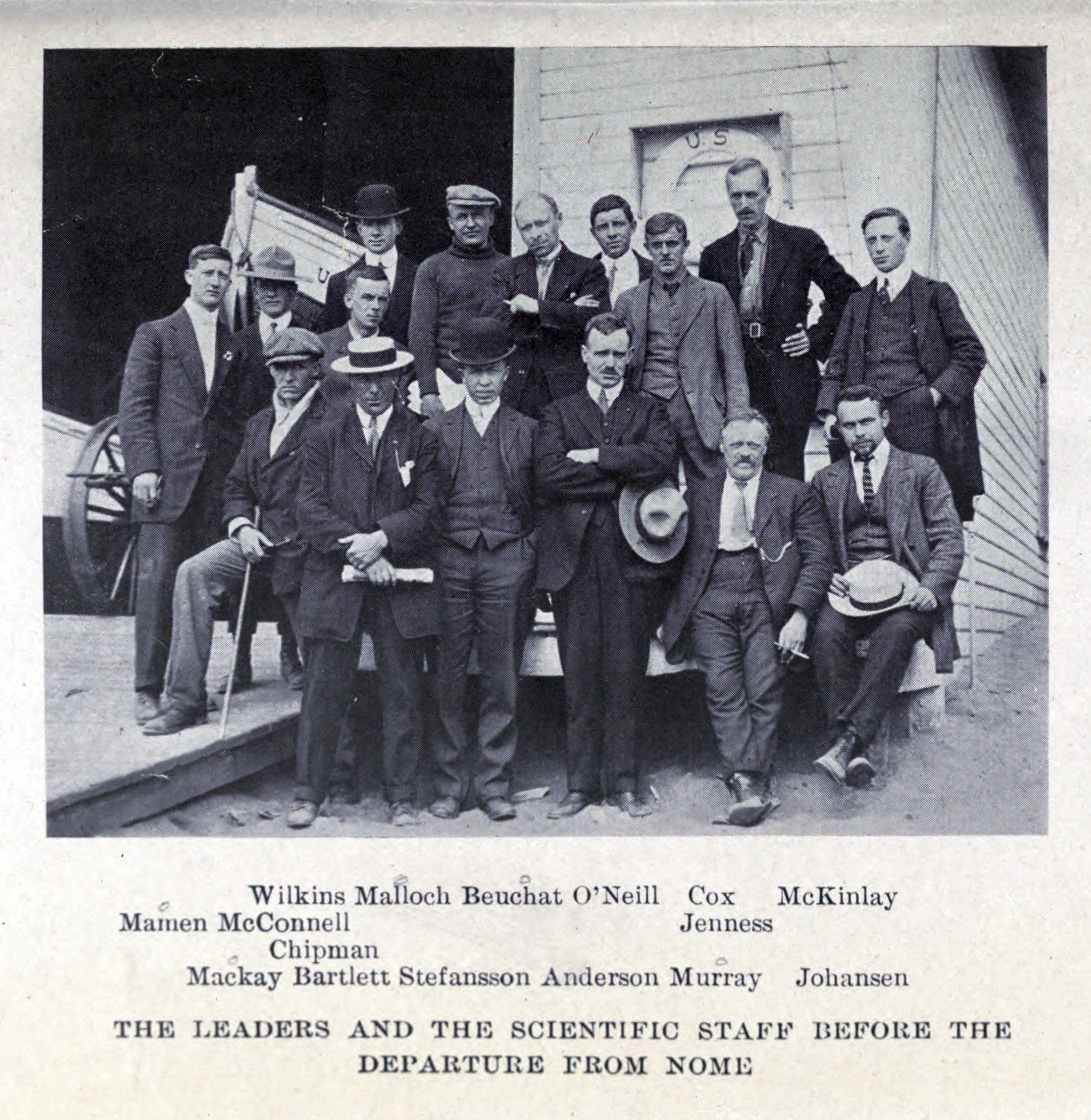 Scientists and leaders of the Canadian Arctic Expedition 1913